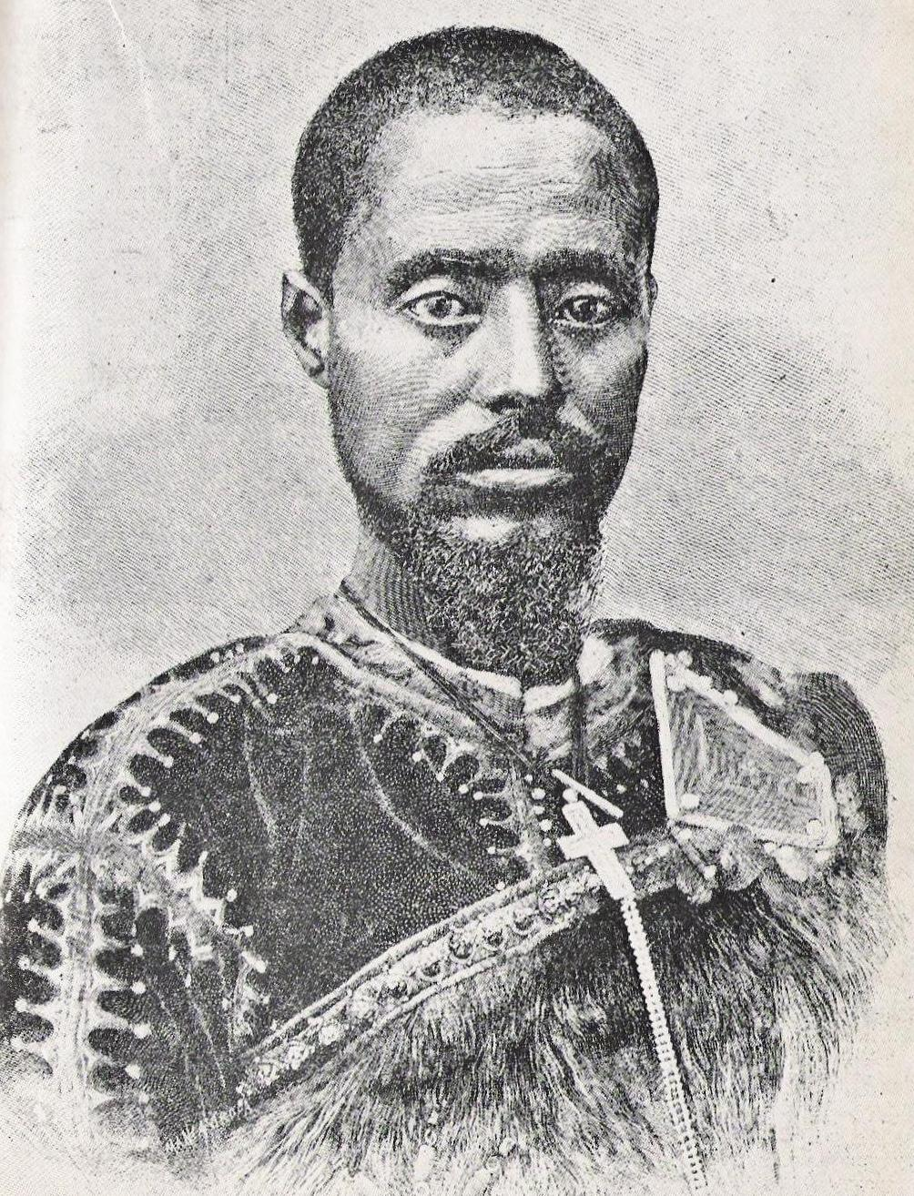 Ras Mekonnen in Napoli, Italy - 1889